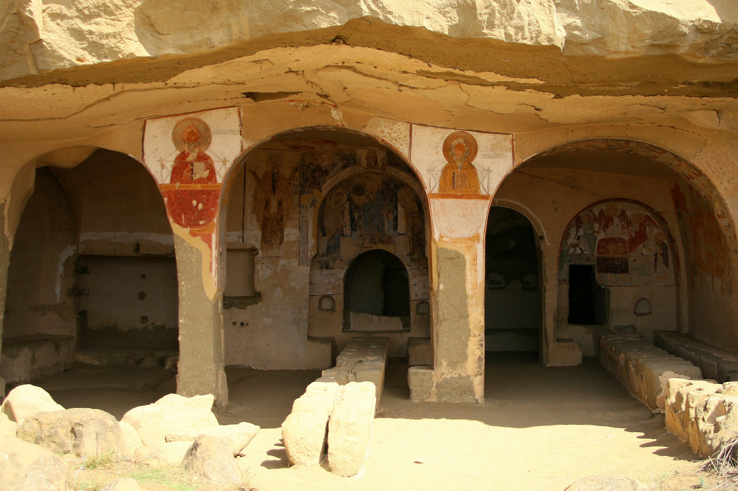 Murals in Udabno (David Gareja)